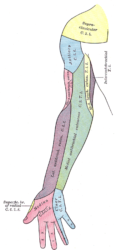 Diagram of segmental distribution of the cutaneous nerves of the right upper extremity. Anterior view. ("Lat. antibrach. cutan." visible in purple at center.)